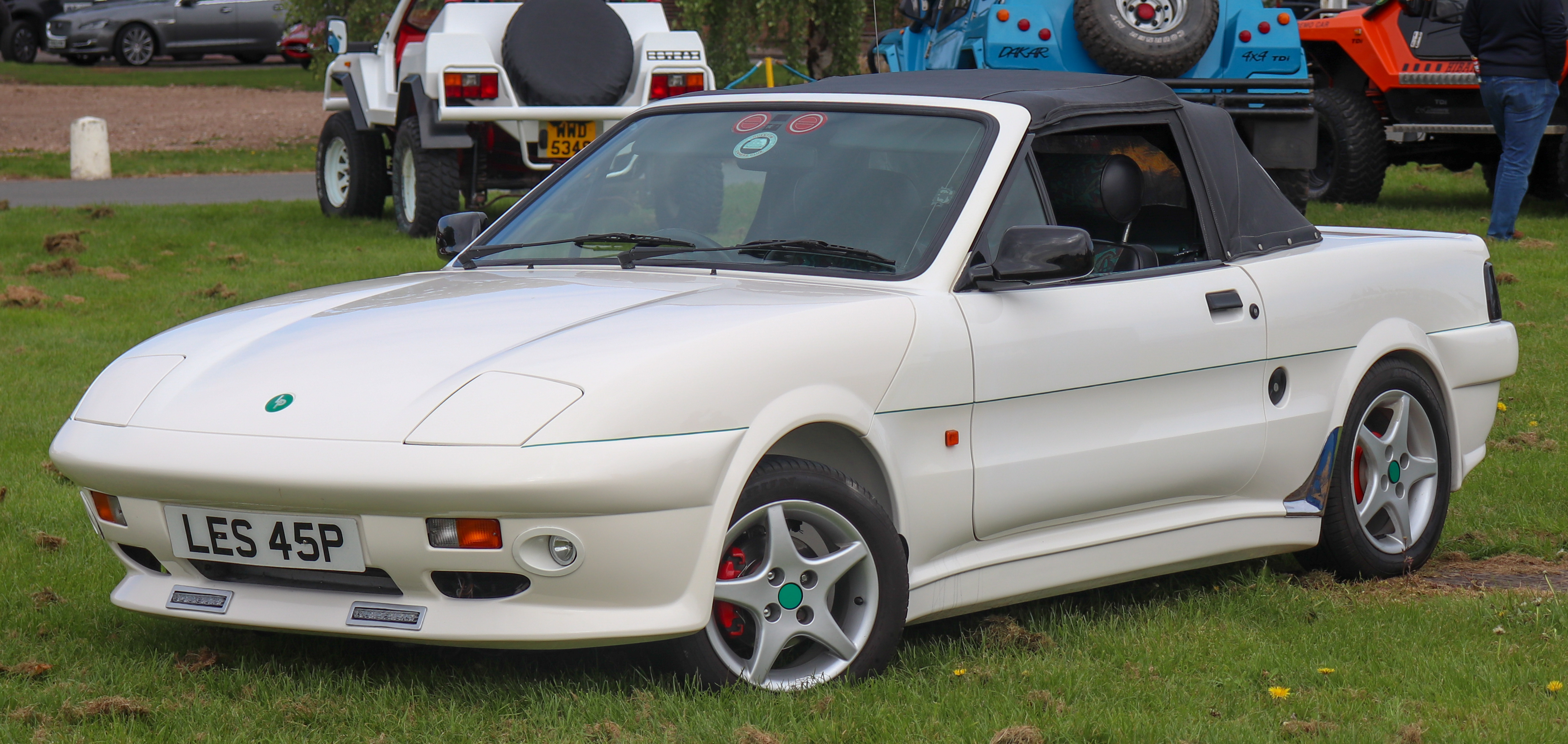 1984 (Donor) Quantum 2+2 1.6 Taken at the Stoneleigh National Kit Car Motor Show 2019